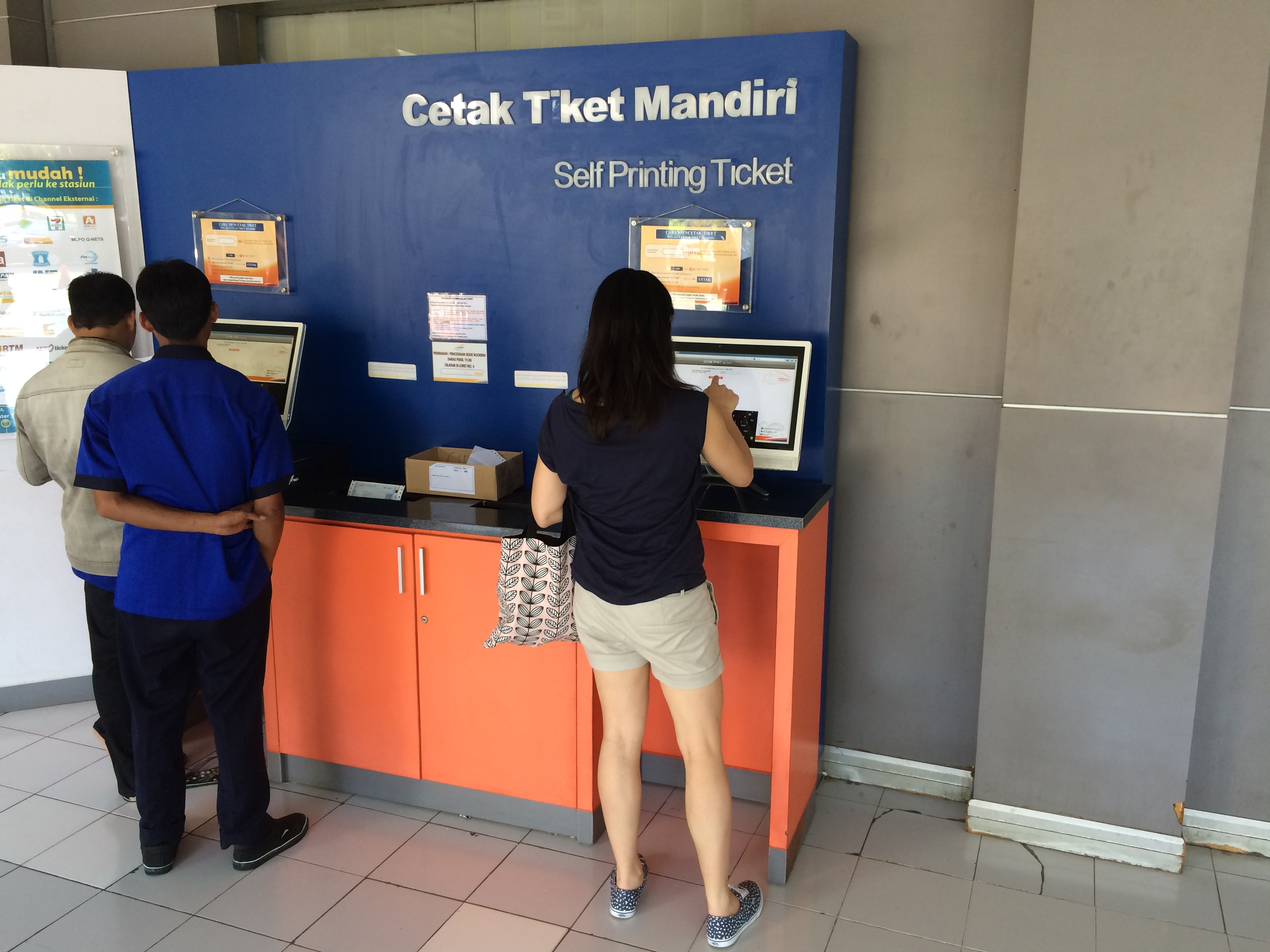 Printing train tickets.